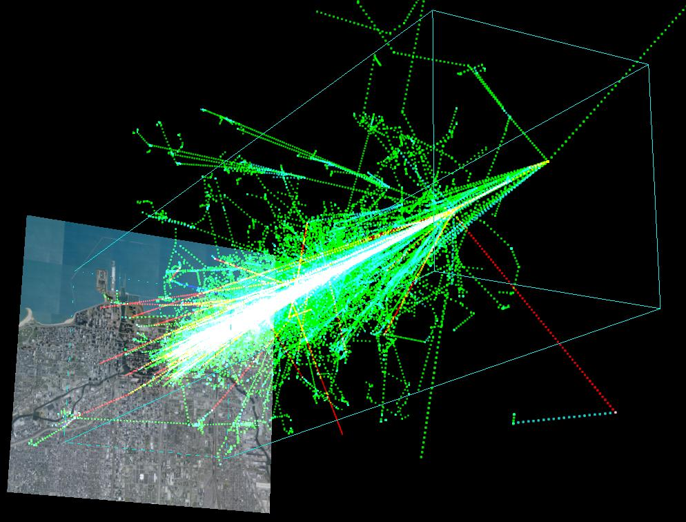 A simulation of a cosmic ray shower formed when a proton with 1TeV (1e12 eV) of energy hits the atmosphere about 20km above the ground. The ground shown here is a 8km x 8km map of Chicago's lakefront. This visualization was made by Dinoj Surendran, Mark SubbaRao, and Randy Landsberg of the COSMUS group at the University of Chicago, with the help of physicists at the Kavli Institute for Cosmological Physics and the Pierre Auger Observatory. The simulation was done using the AIRES package by physicist Sergio Sciutto of the Universidad Nacional de La Plata, Argentina. Interactive animated 3d models of this and other cosmic ray showers, as well as instructions on how to make additional ones, can be found at